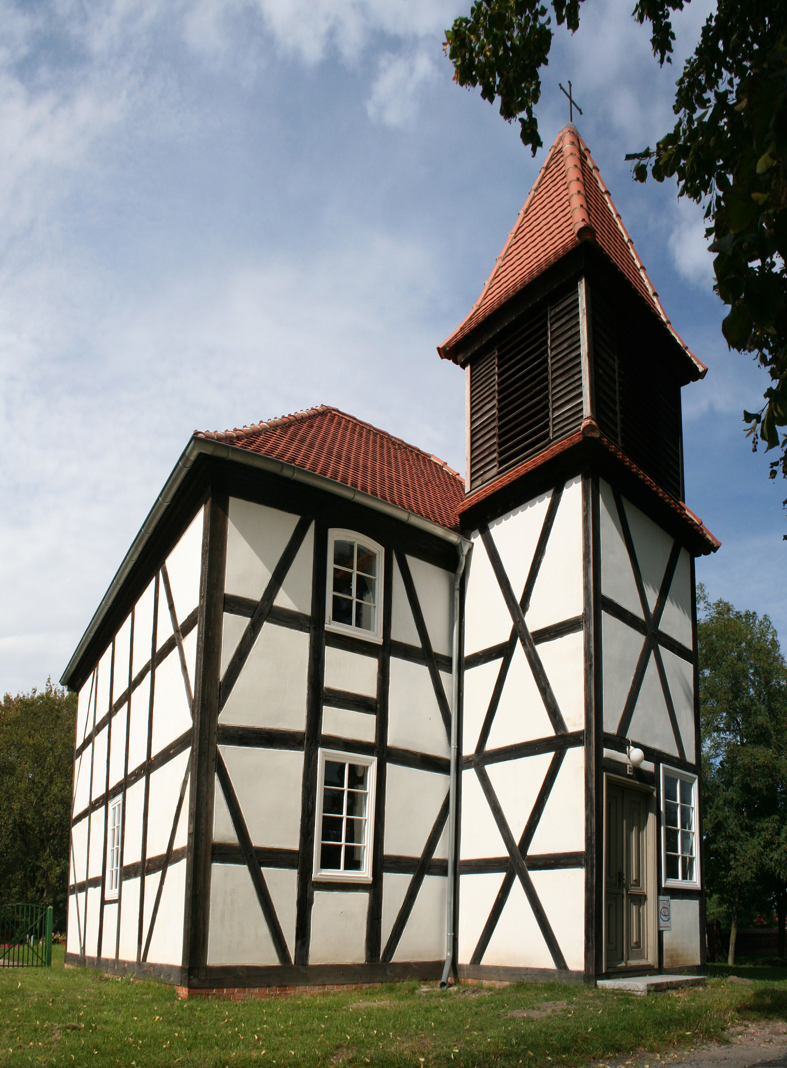 Church in Altbarnim, Brandenburg, Germany